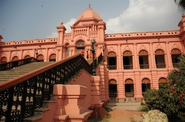 Ahsan Manzil has now been converted into a museum and a popular tourist attraction of old Dhaka.